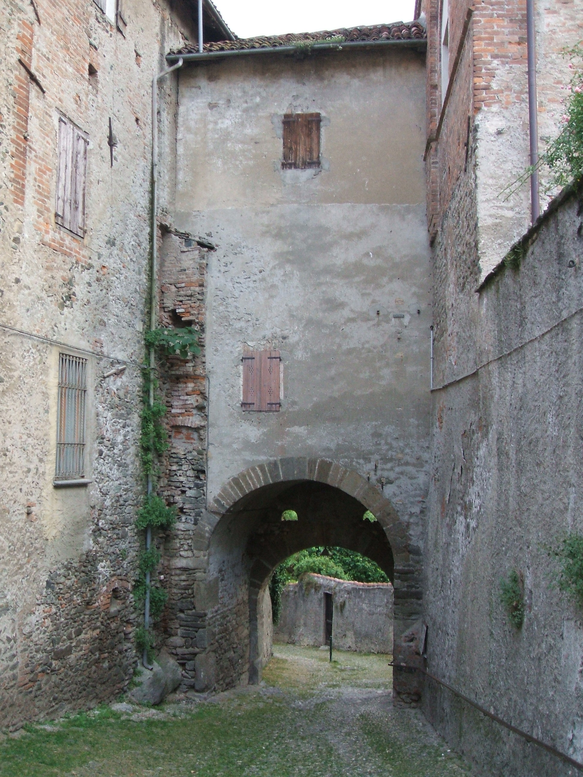 Avigliana, centre